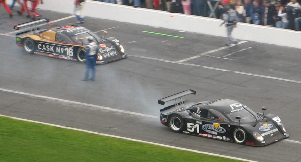 Cheever Racing's two Coyote-Pontiacs on the way to the pace lap in Daytona.